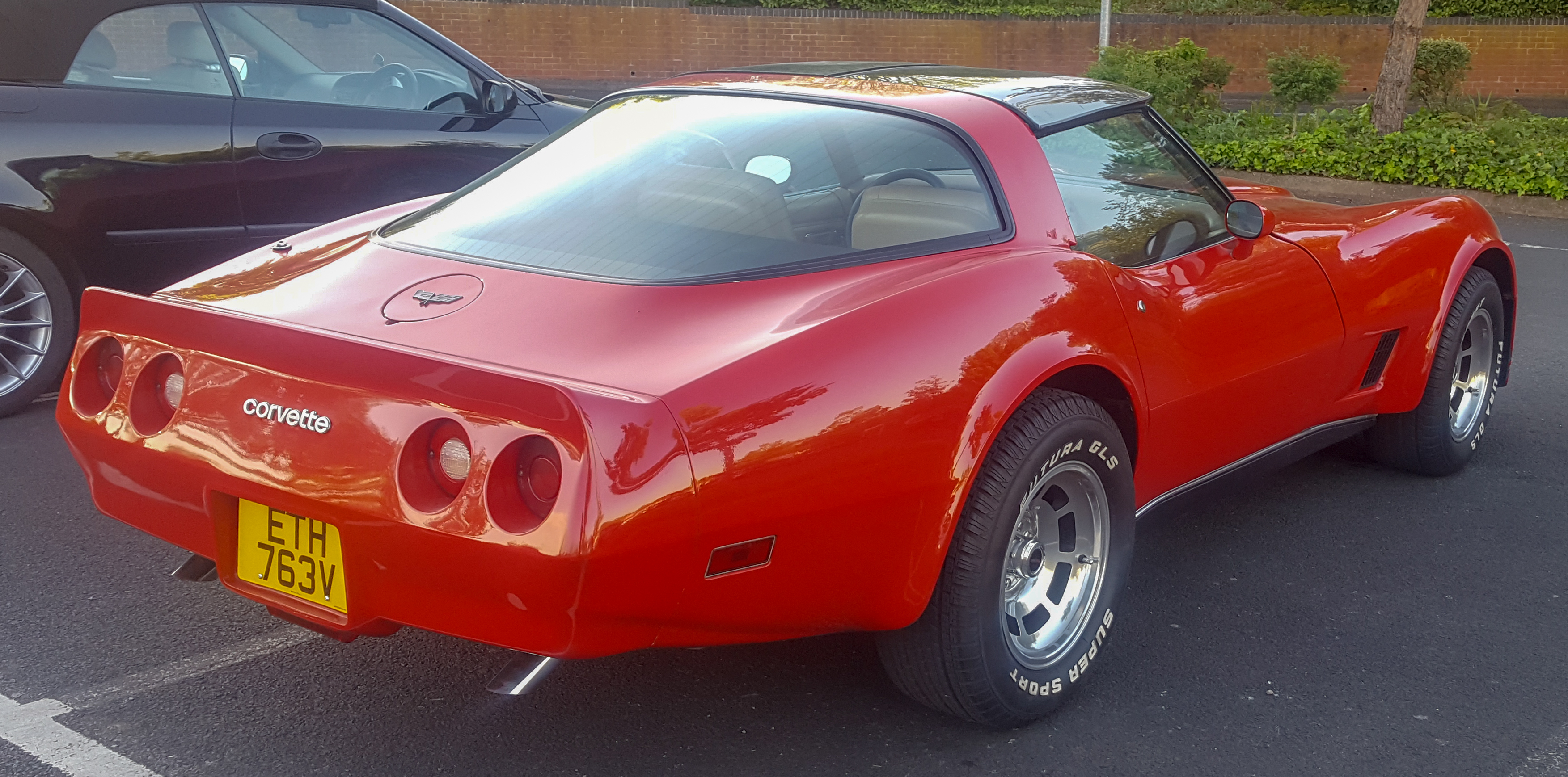 1980 Chevrolet Corvette Stingray 5.7 Rear Taken in Warwick